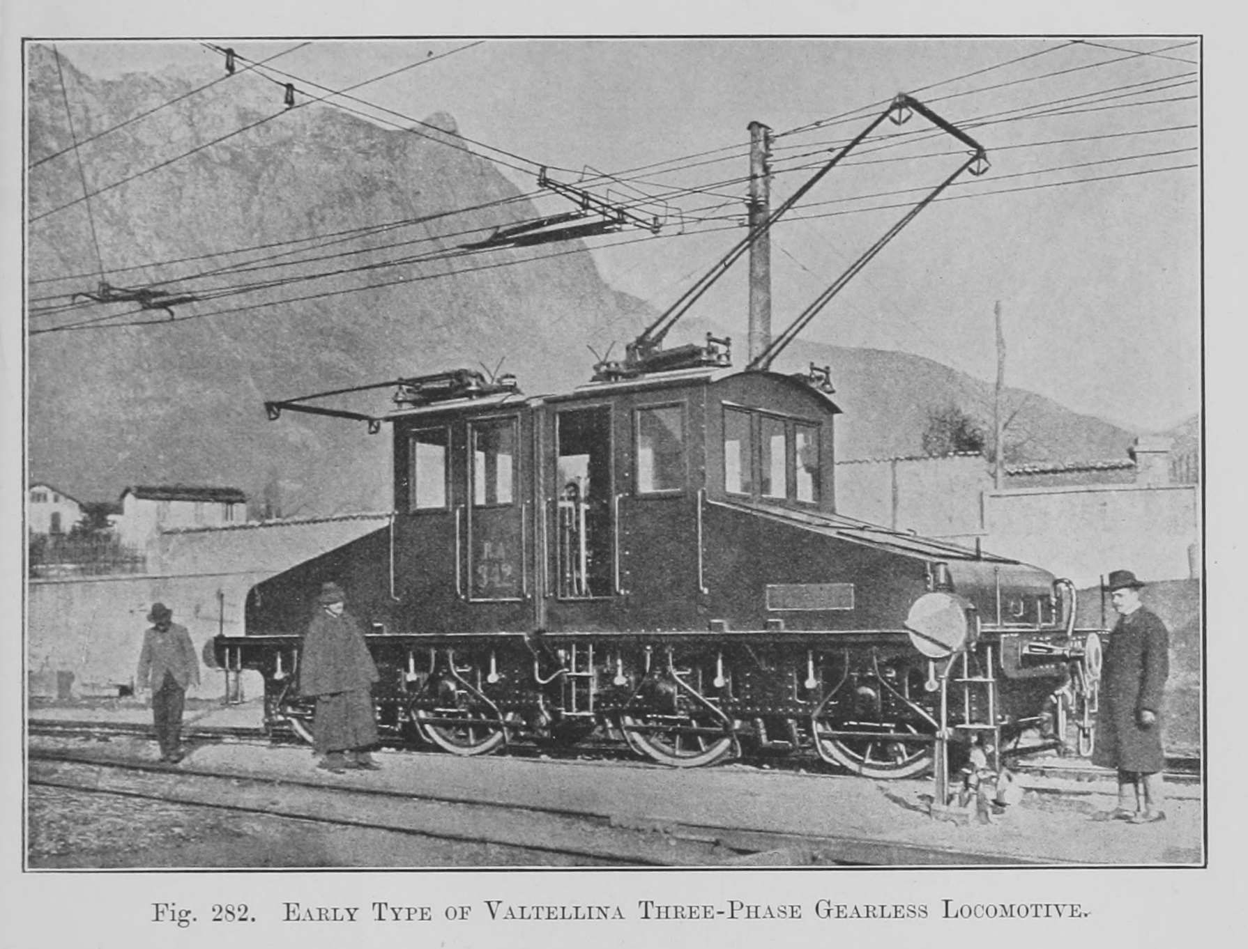 see image title - first number is figure or diagram number. See list of illustrations in source for page number in source - relevent text content is near to image in the source